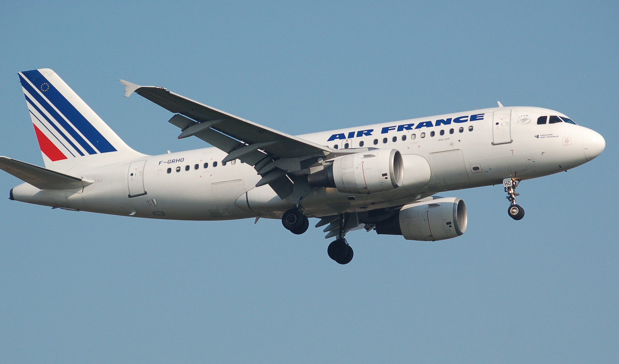 Air France Airbus A319-100 (F-GRHO) taking off from London Heathrow Airport, England.